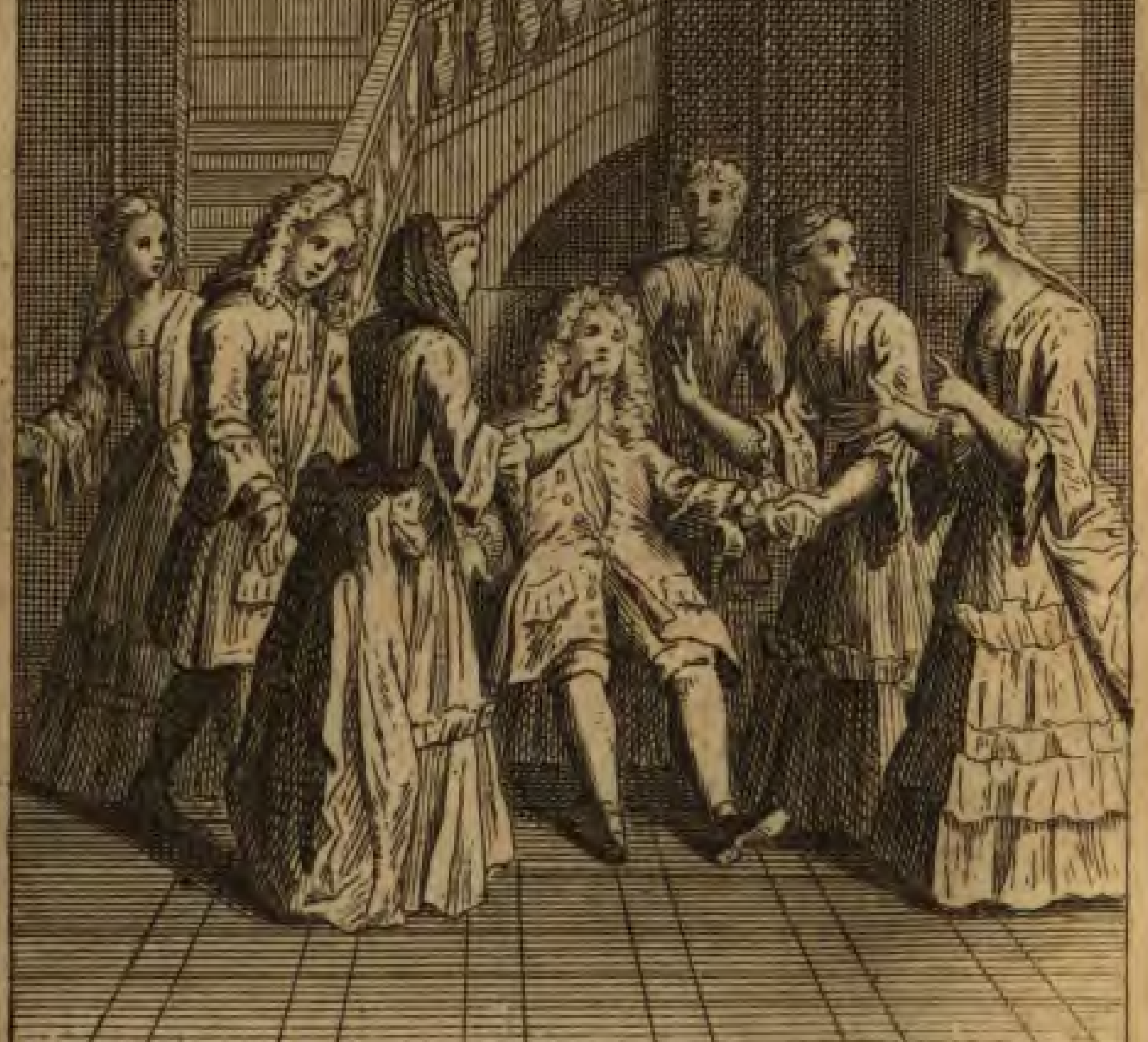 Acte IV scene 1 of The Beaux' Stratagem, scanned from the 1736 edition. From left to right : Gipsy, Archer, lady Bountiful, Aimwell, Scrub, Dorinda holding Aimwell's hand, and lady Sullen